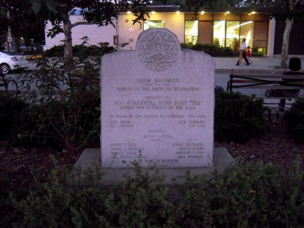 Haym Solomon plaque near Kew Gardens Hills Library